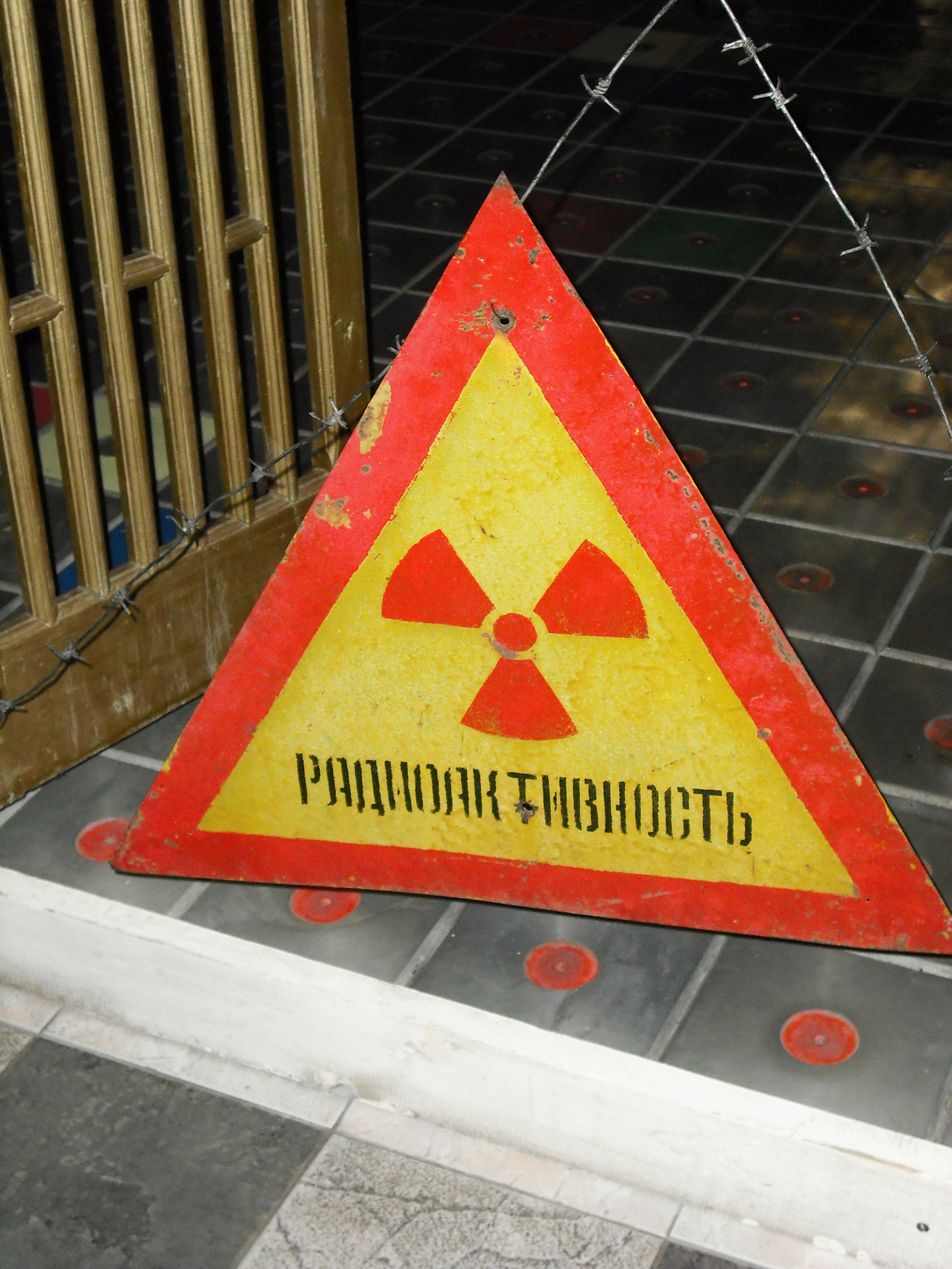 Kiev - Ukrainian National Chernobyl Museum